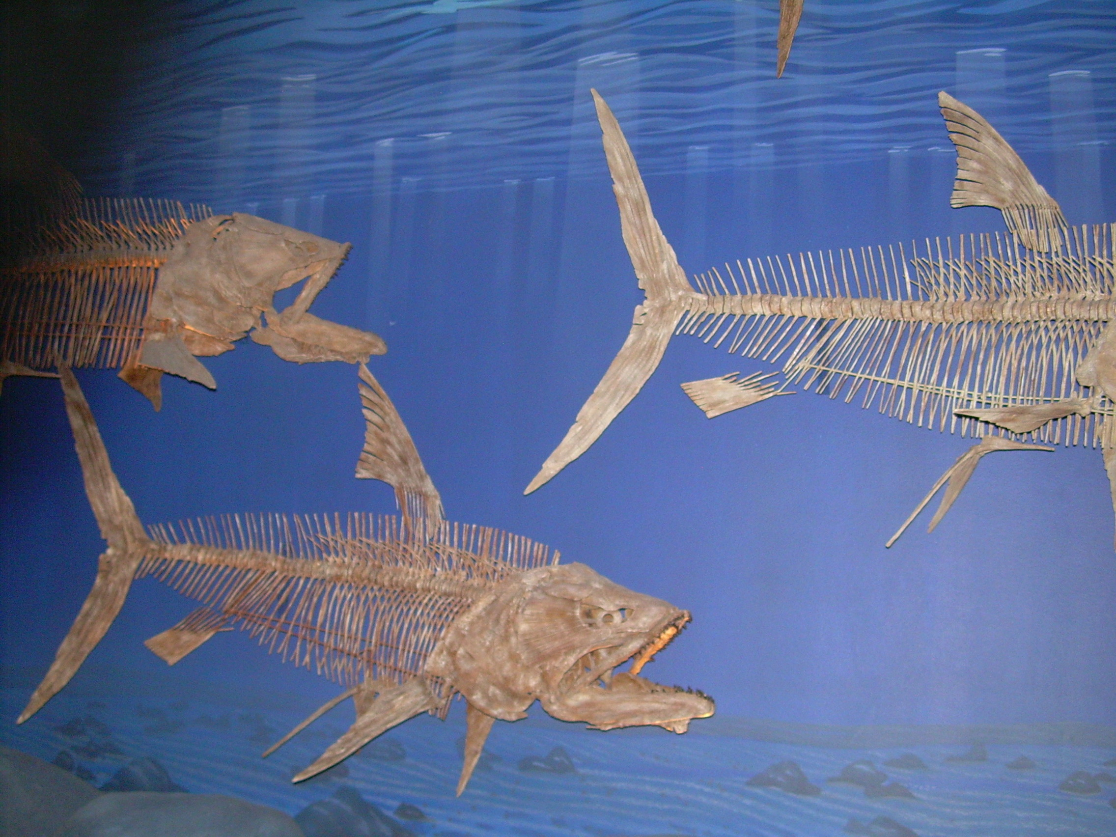 Photograph of a fossil cast of a Pachyrhizodus caninus skeleton taken at the North American Museum of Ancient Life.